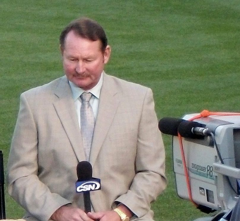 Carney Lansford broadcasting pre-game for The Oakland Athletics